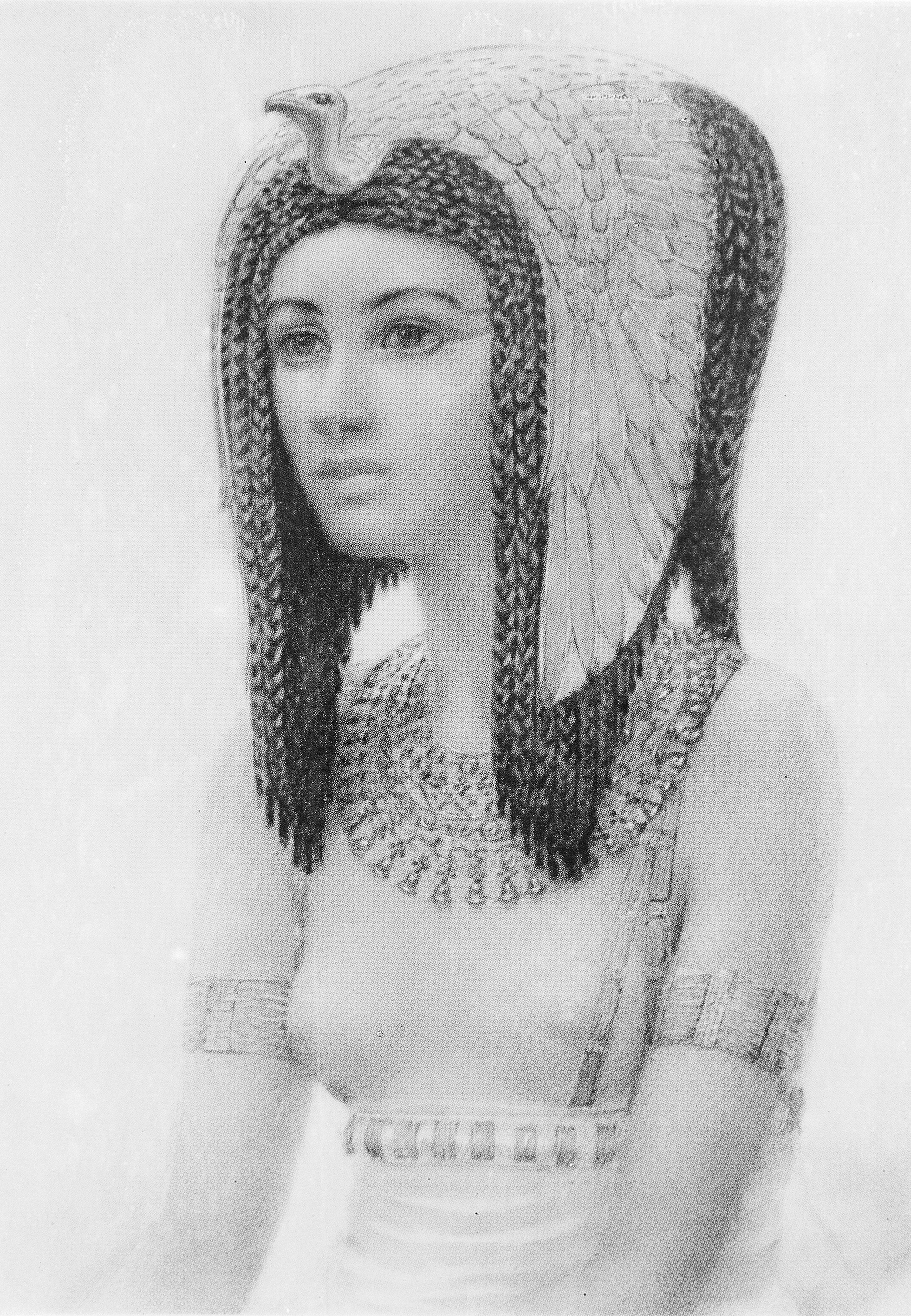 Figure of Ancient Egyptian, Queen Tetisheri Wellcome Images Keywords: Tetisheri